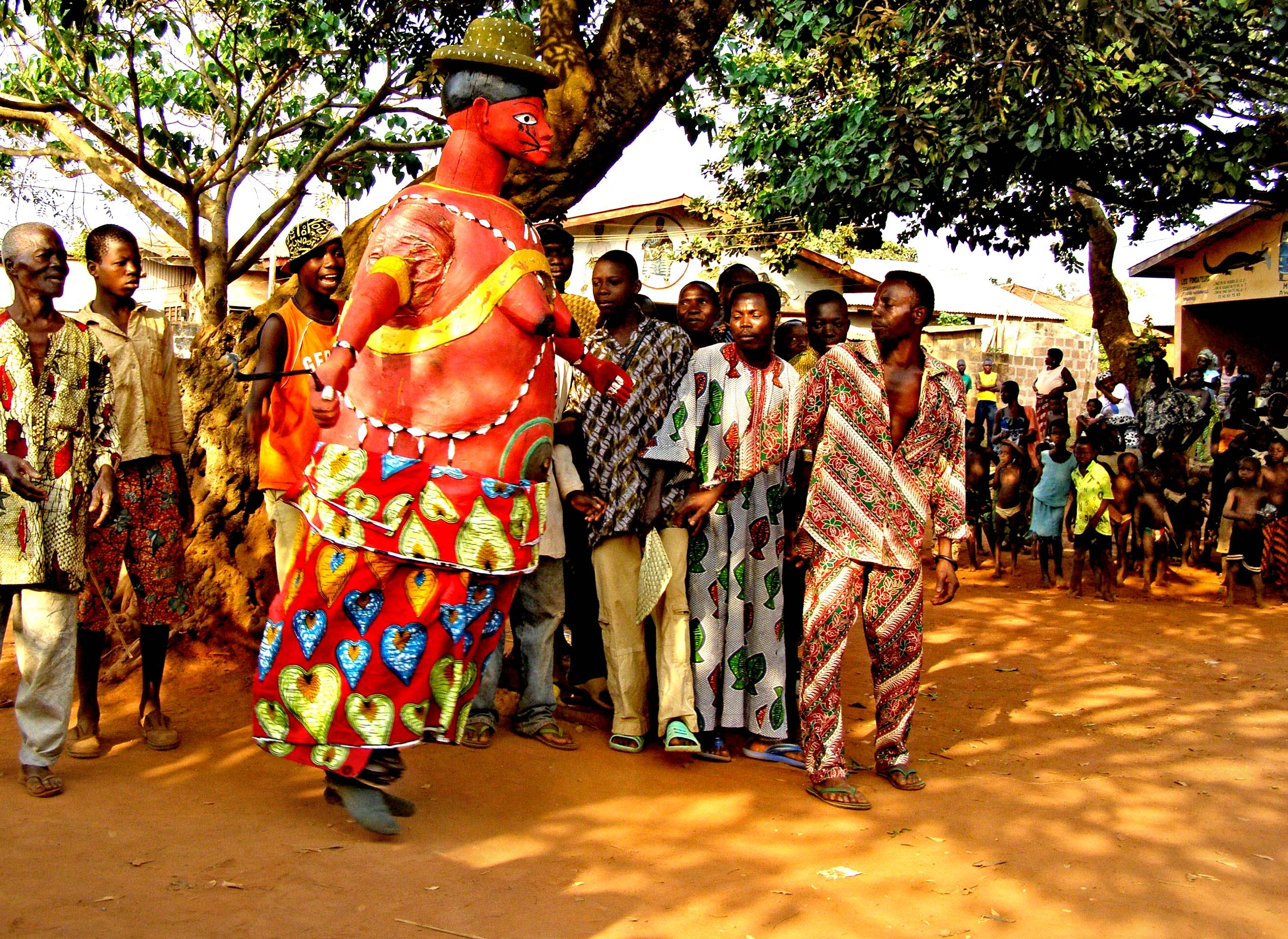 The Gelede Masked Festival of Cové, Benin